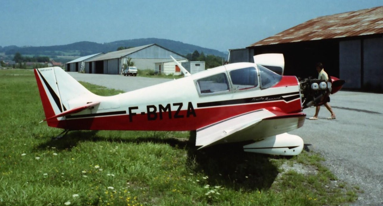 A Jodel 1051M1 Sicile-Record at Annecy Airport, France in 1982